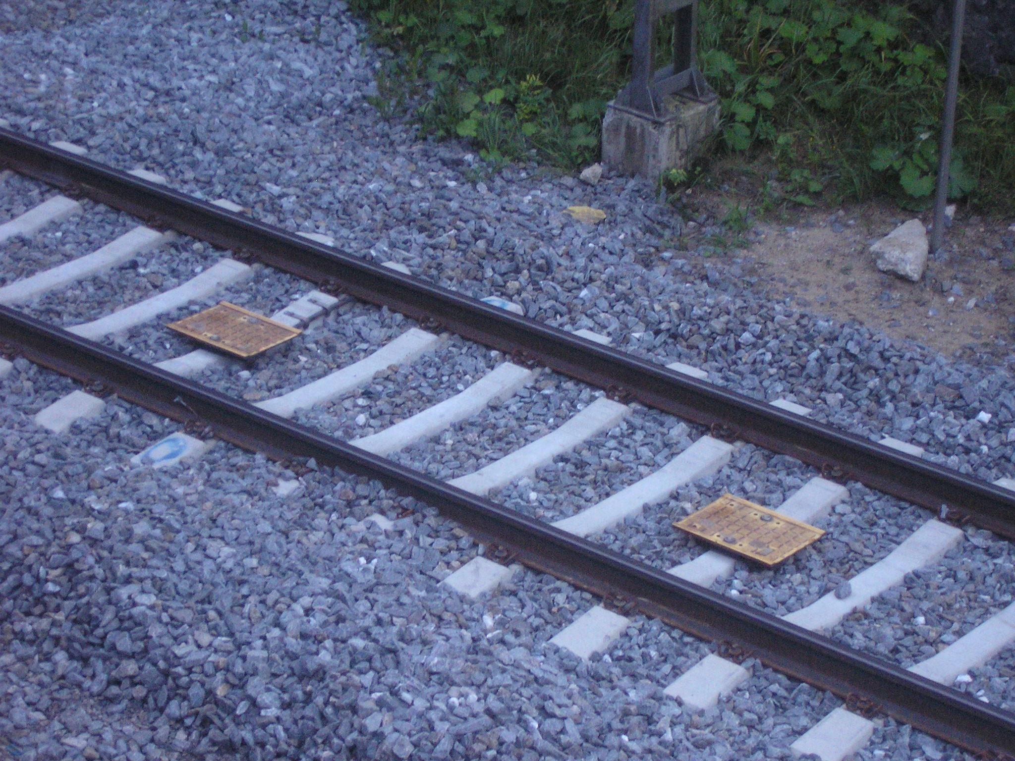 Balises on Orivesi-Jyväskylä railway in Muurame, Finland Sunda: Baliiseja Orivesi–Jyväskylä-radalla Muuramessa.